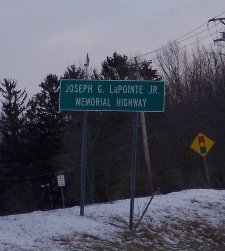 Joseph G. LaPointe Memorial Highway sign. Taken in Clayton, Ohio.